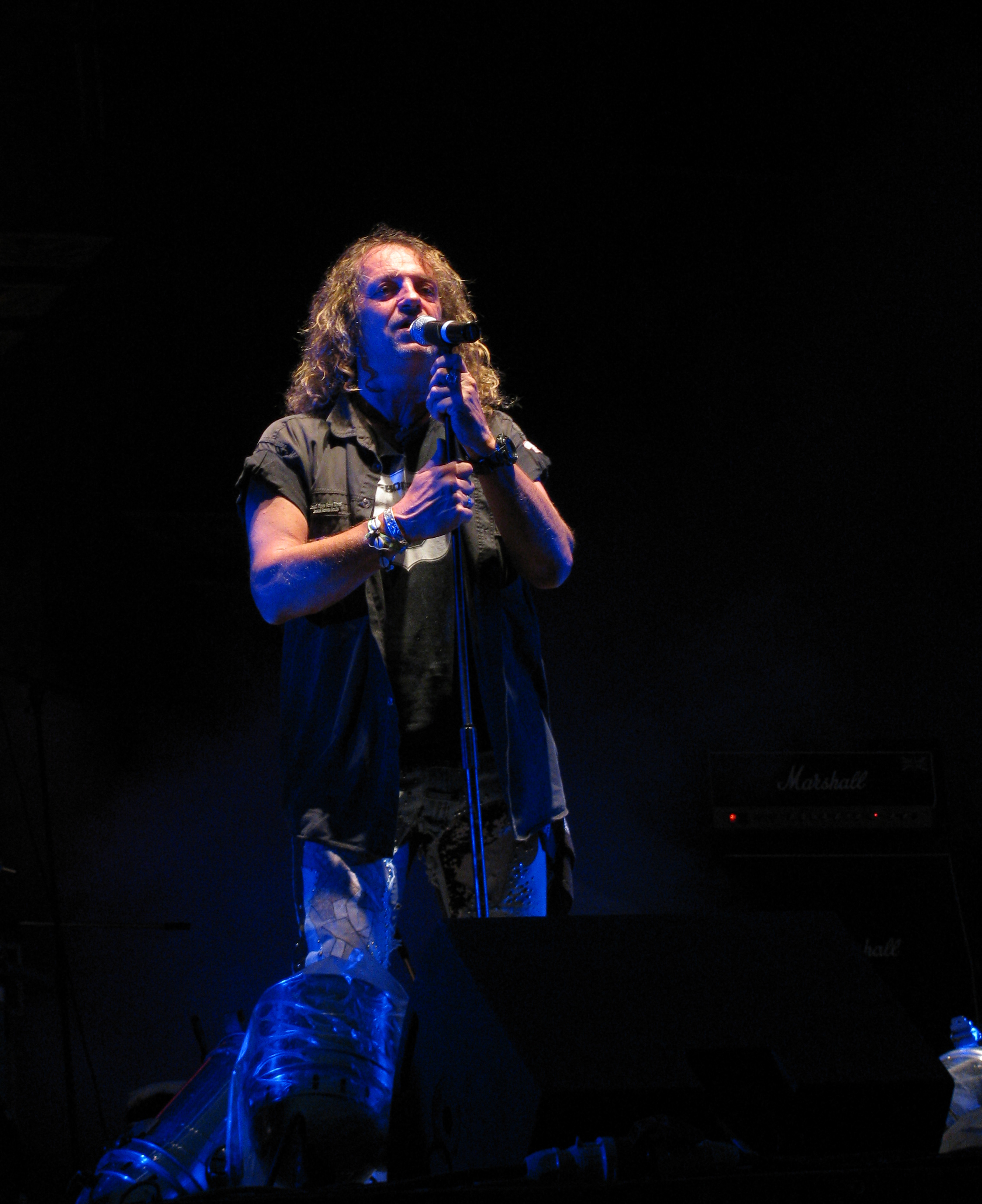 Claus Lessmann (Bonfire) playing at Global East Rock Festival 2010